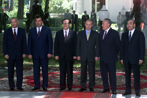 DUSHANBE. Participants of the Shanghai Five Summit at a joint photo session (l-r):Uzbekistan President Islam Karimov, Tajikistan President Emomali Rakhmonov, Chinese President Jiang Zemin, Russian President Vladimir Putin, Kazakhstan President Nursultan Nazarbaev and Kyrgyzstan President Askar Akaev.